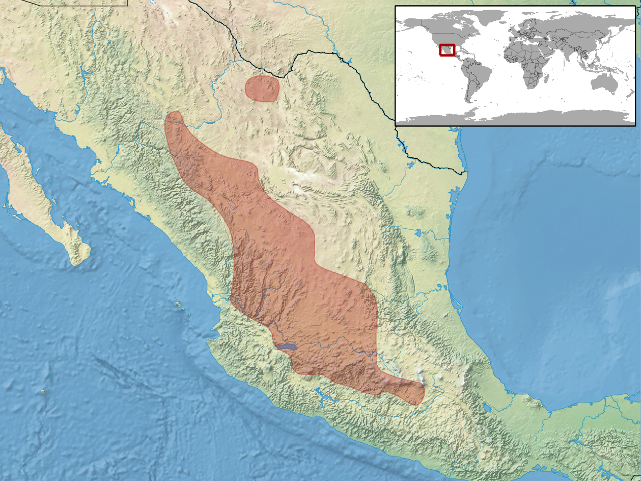 geographic distribution of Conopsis nasus (Native: Mexico)